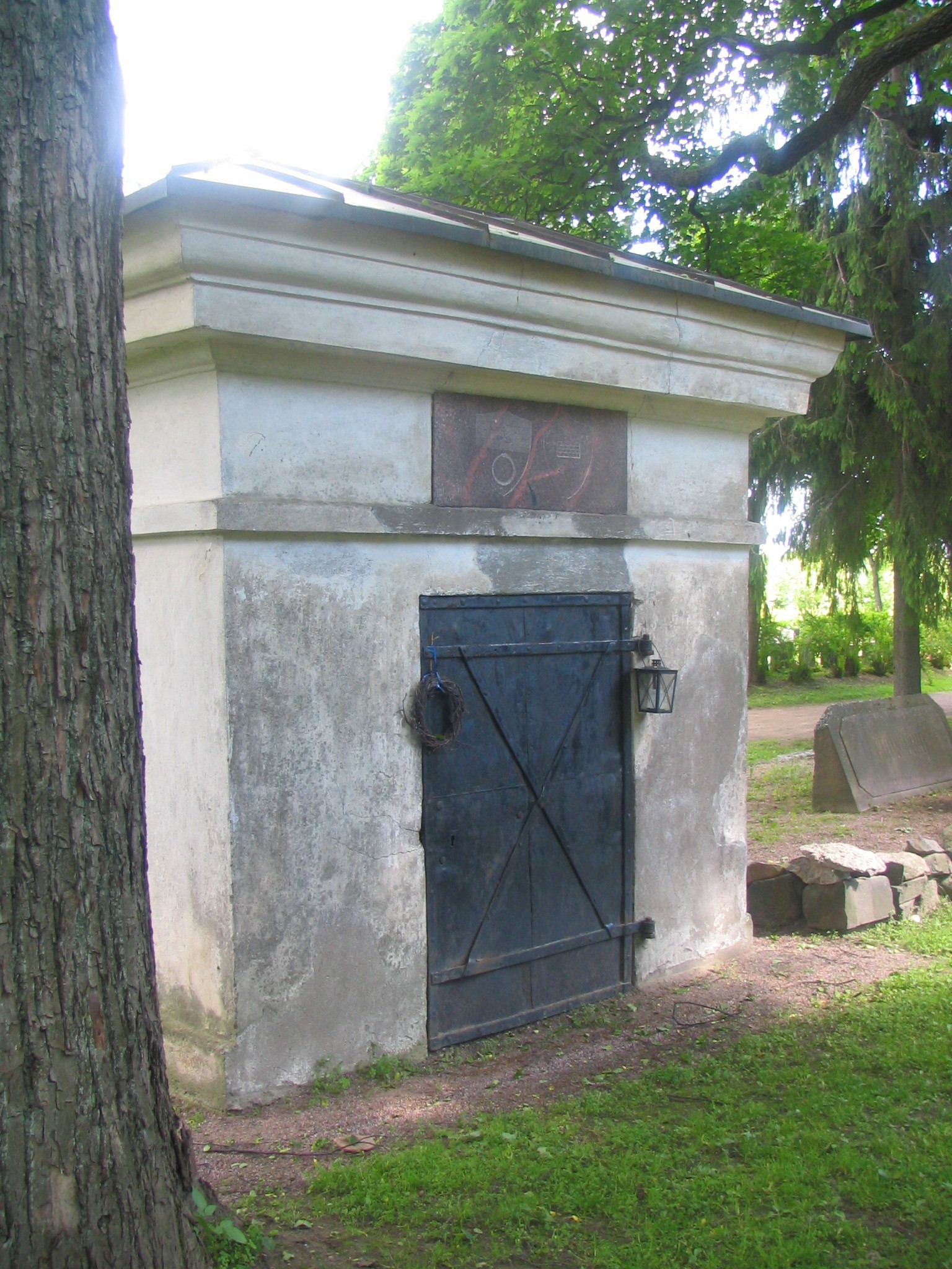 Cronstedts grave in St Lauri's church graveyard in Vantaa